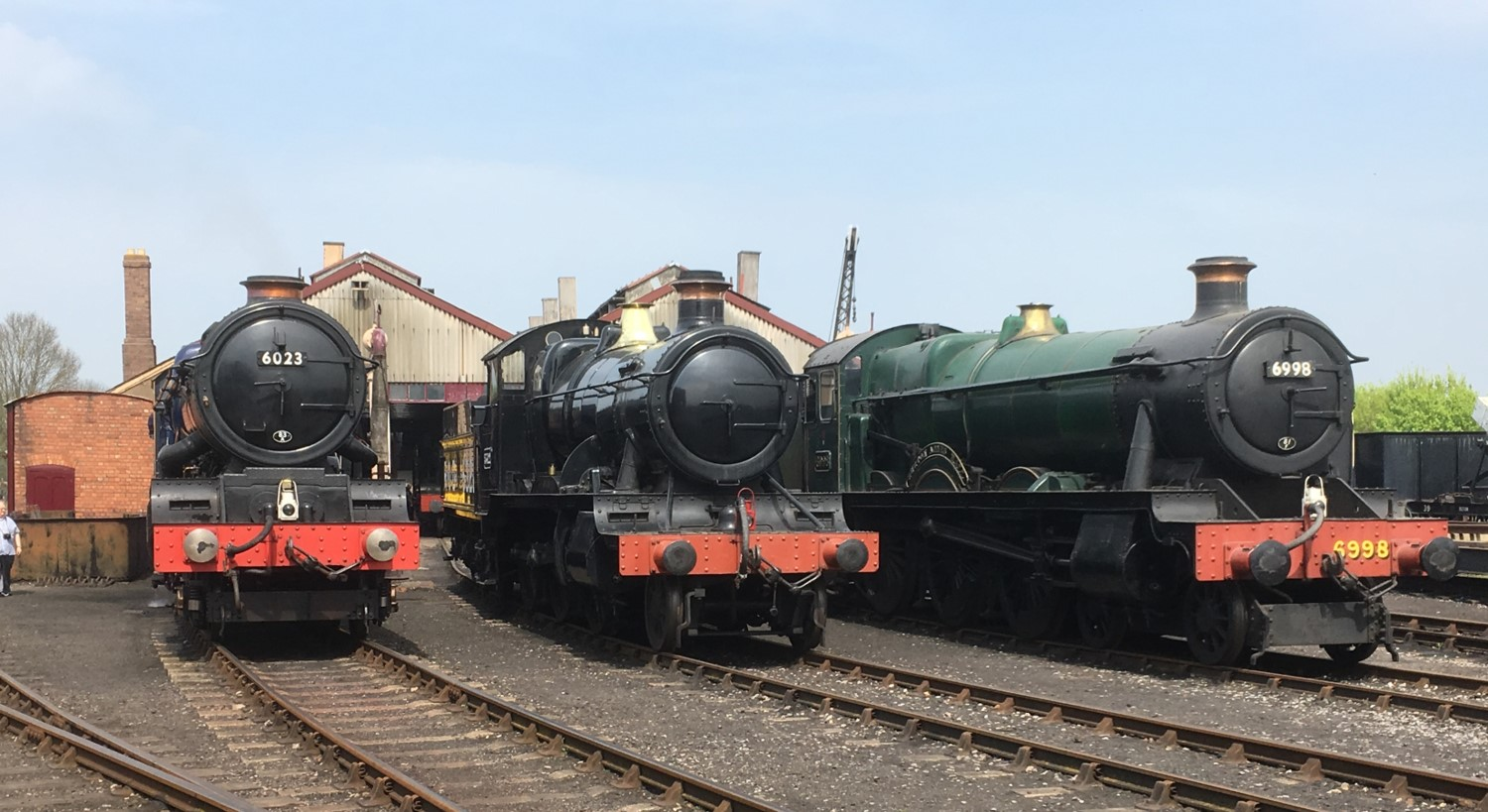 Locomotives 6023 King Edward II, 5322 and 6998 Burton Agnes Hall outside the original 1932 engine shed at Didcot